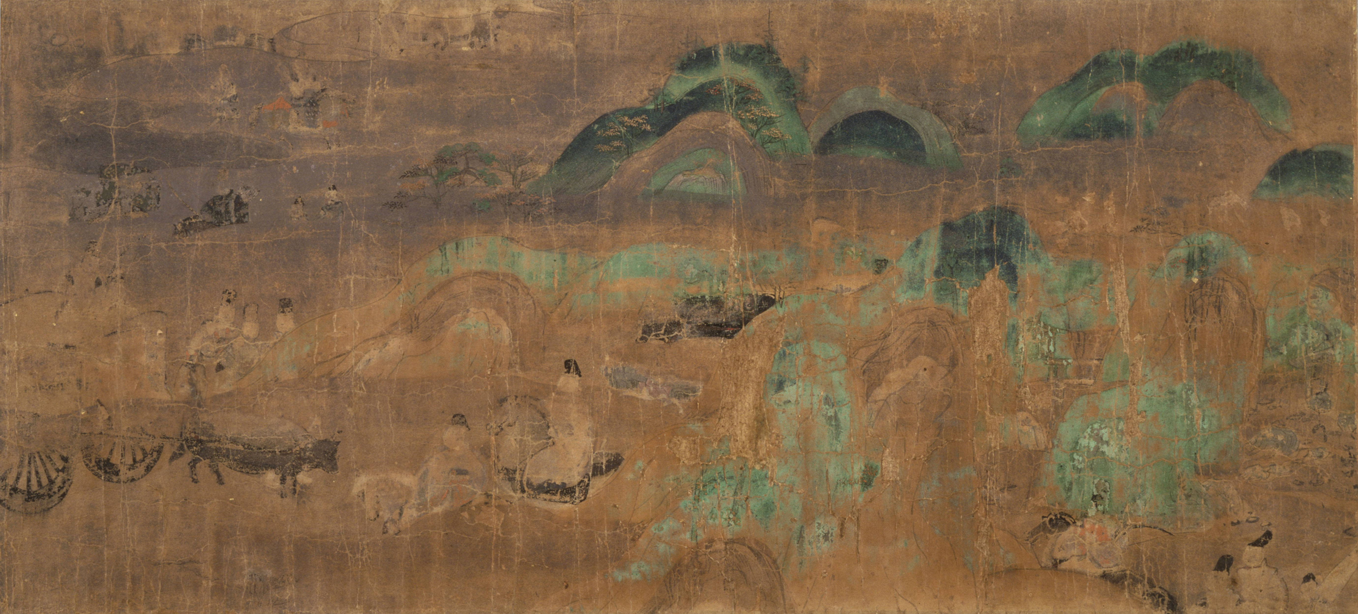 A sceneof the Chapter "SEKI YA"(Gate Hut) of Illustrated handscroll of Tale of Genji (written by MURASAKI SHIKIBU(11th cent.). The handscroll was made in about ACE1130 and stored in TOKUGAWA Museum, Japan. The handscrolls were separated to each sections and mounted to frame for conservation. The image source is GENJI-MONOGATARI-EMAKI published by the MUSEUM, 1937.